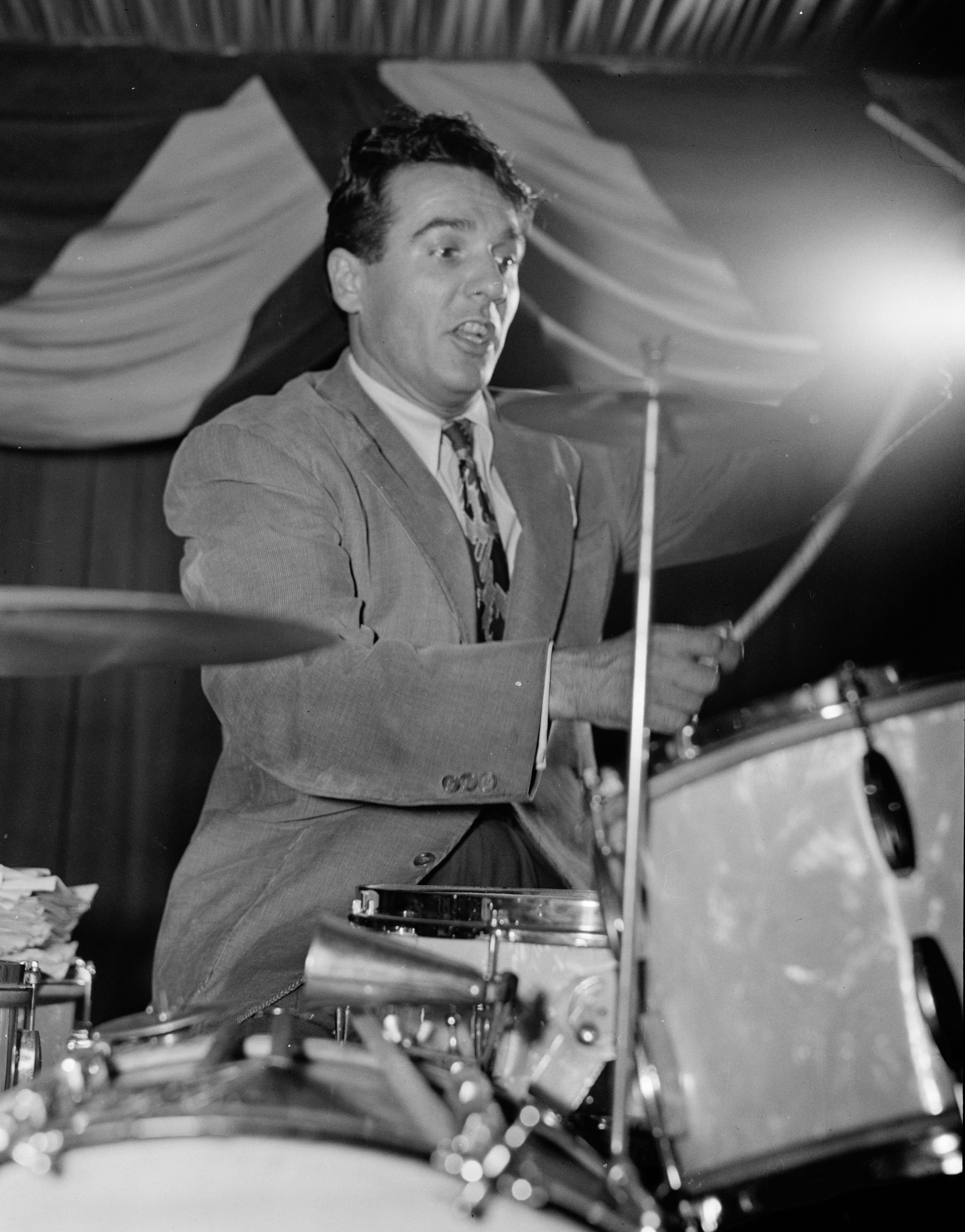 Gene Krupa, 400 Restaurant, New York, N.Y.